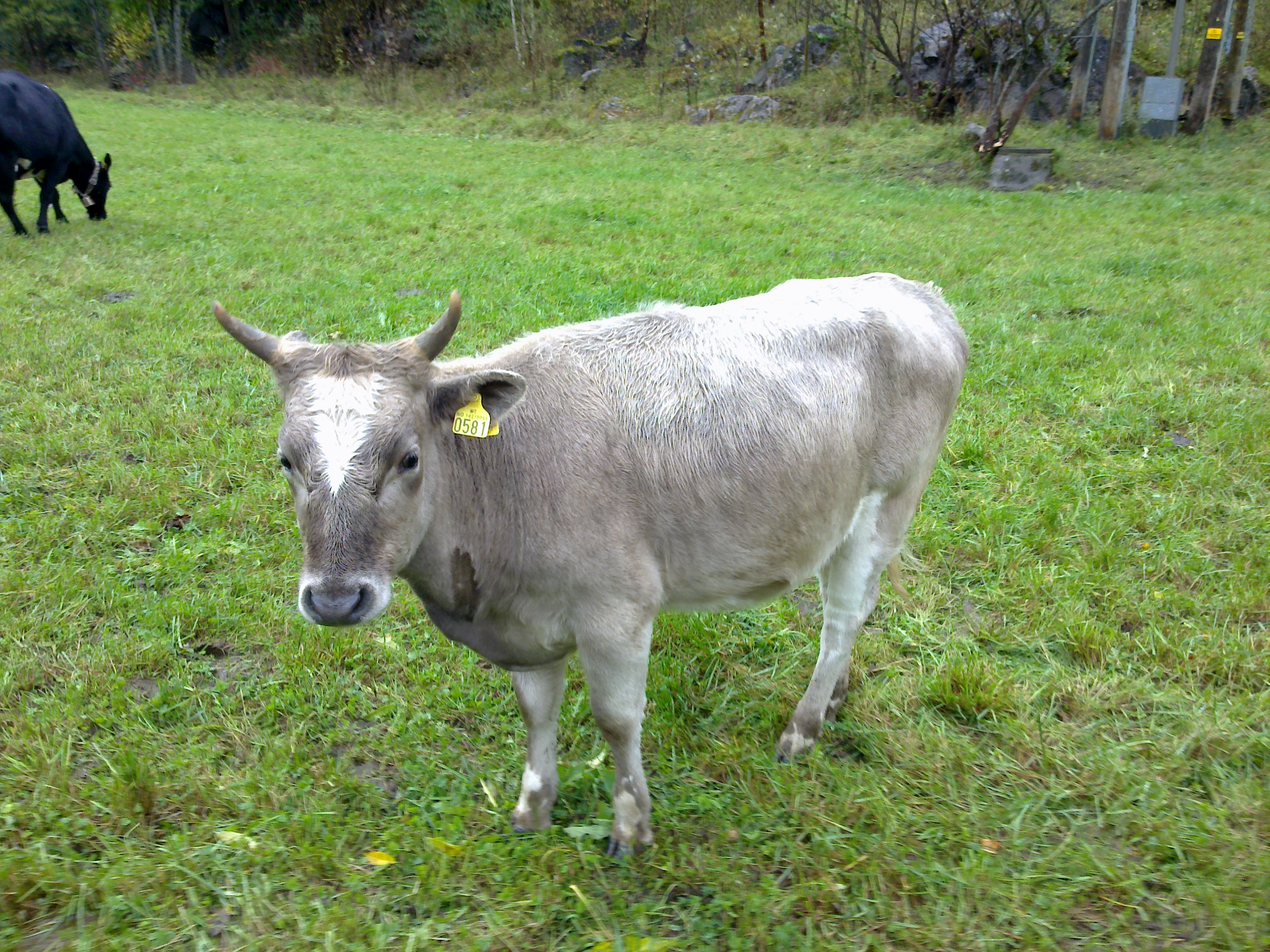 This is a young cow - "Vestlandsk fjordfe"